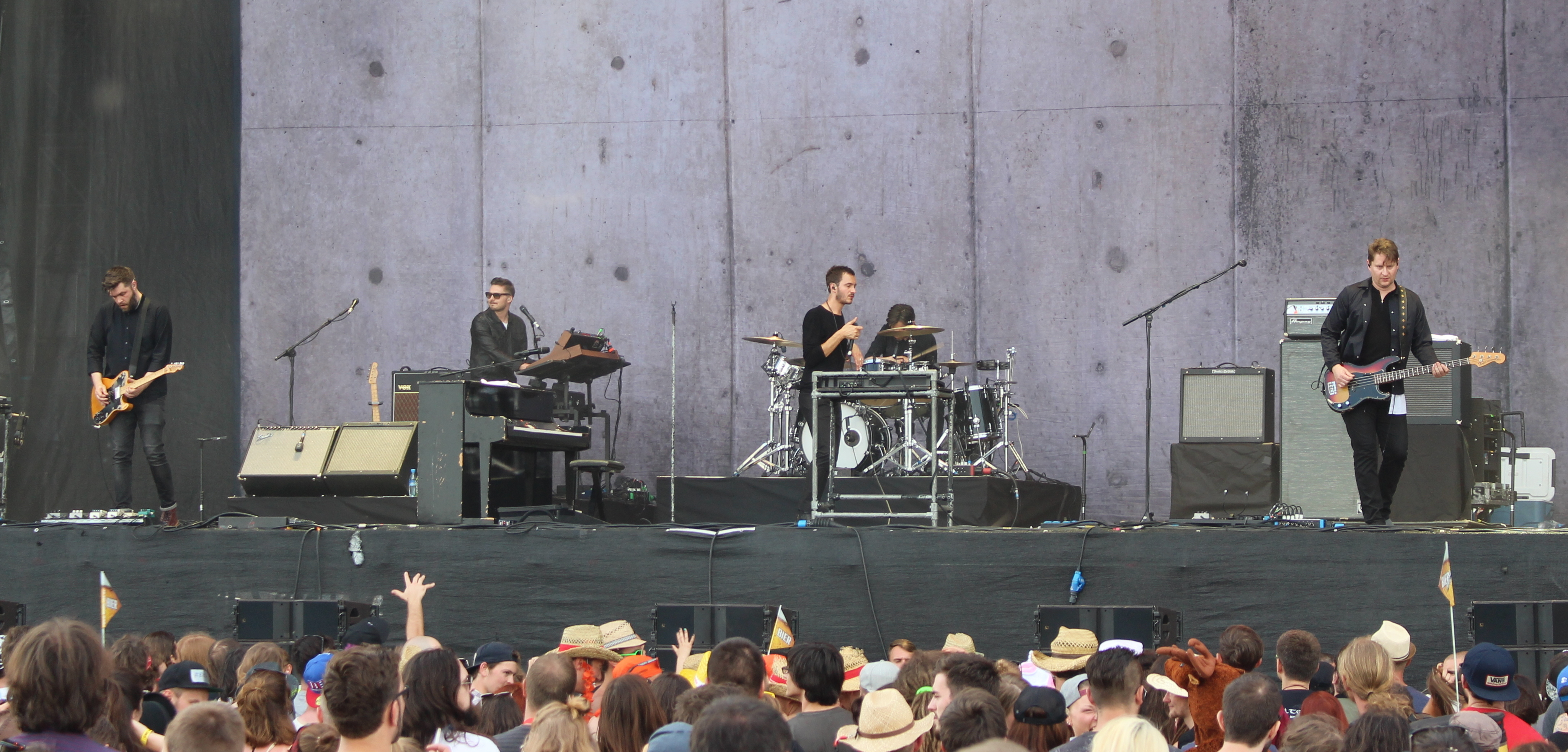 Editors at Novarock 2016